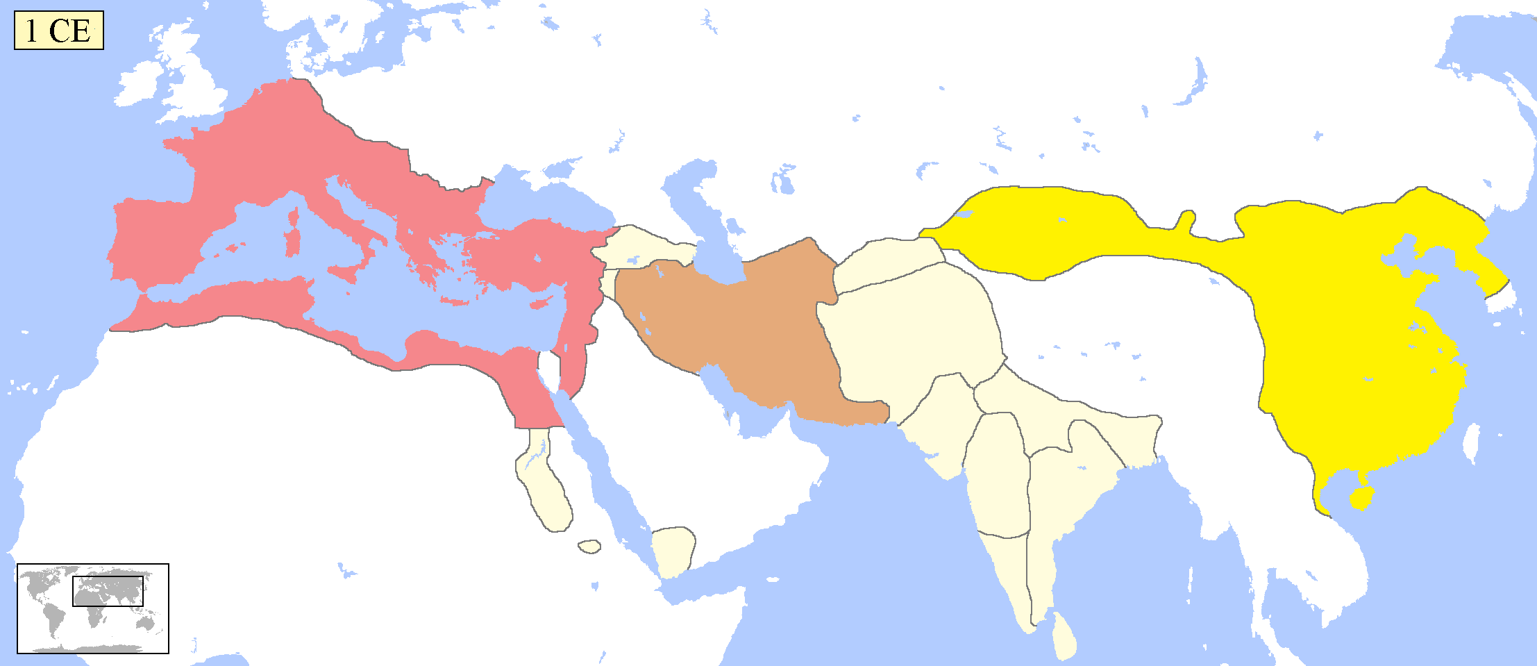 Derivative work of File:Roman HanEmpiresAD1.png using 1 CE